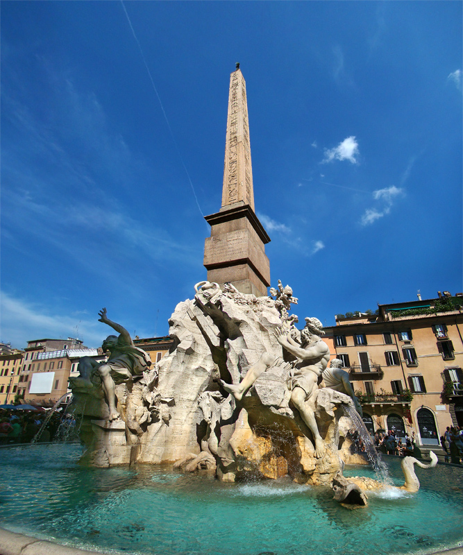 Fountain of the Four Rivers, Piazza Navona, Rome, Lazio, Italy. The statue of the Danube is in the foreground on the right, that of the Rio de la Plata is half-shaded on the left.